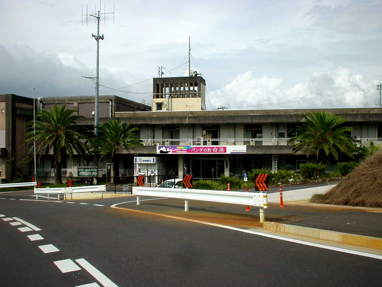 Shirahama Town Hall